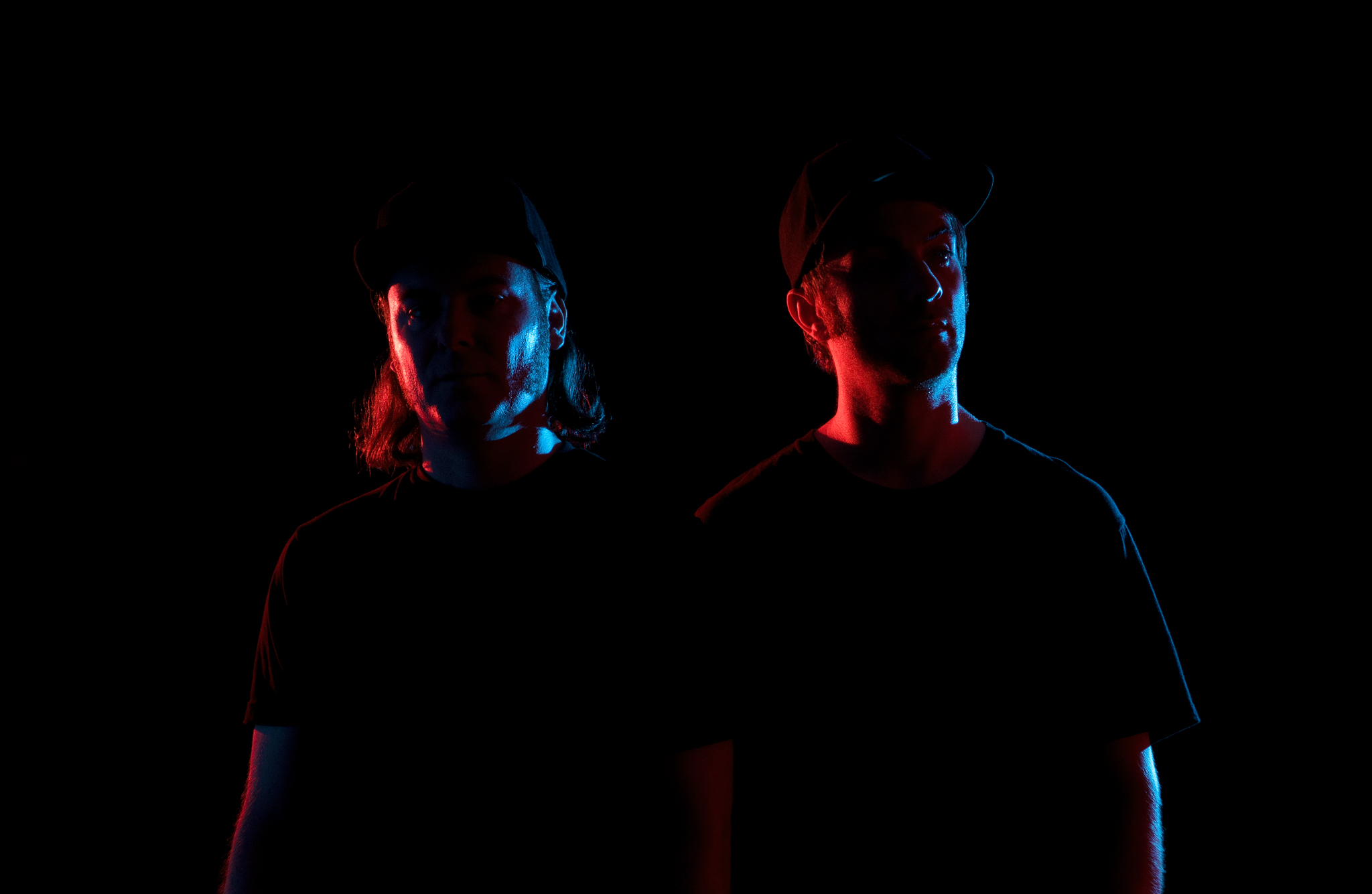 Dynamic Rockers official portrait 2016